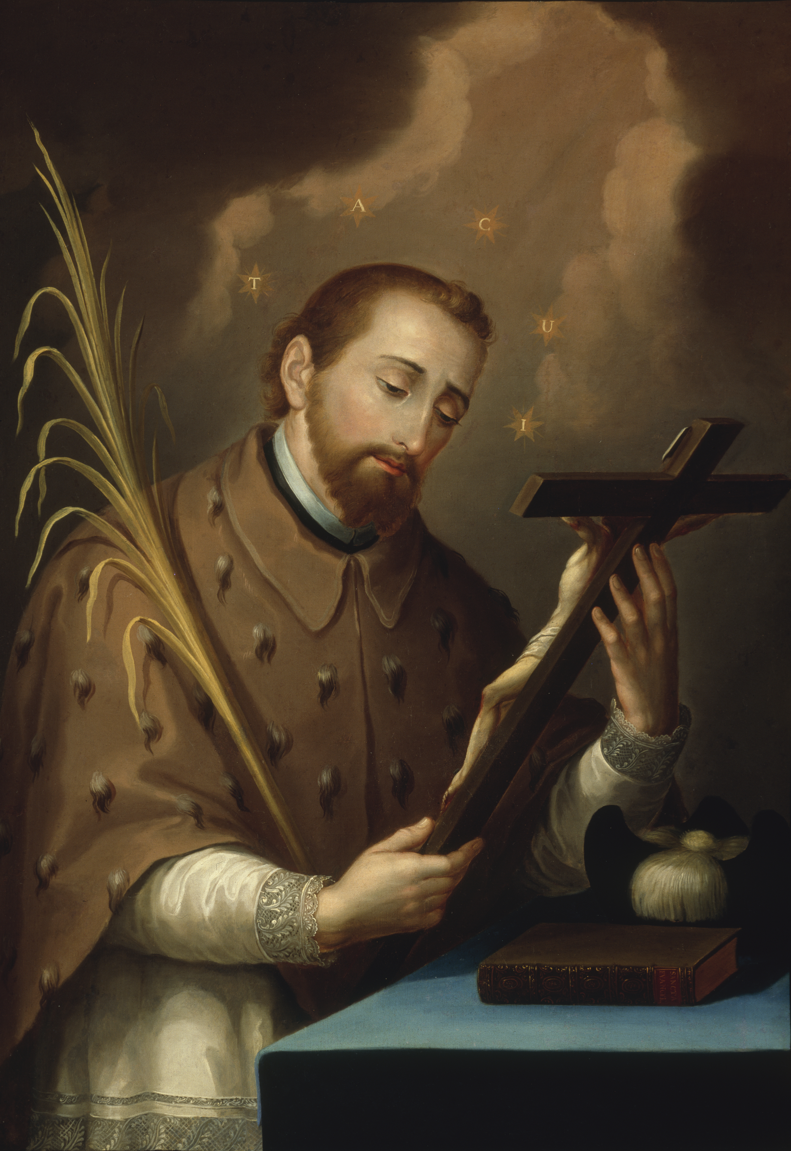 Portrait of John of Nepomuk by José Campeche.